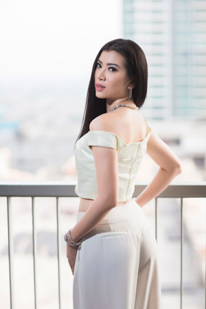 This is the profile picture of kanty widjaja